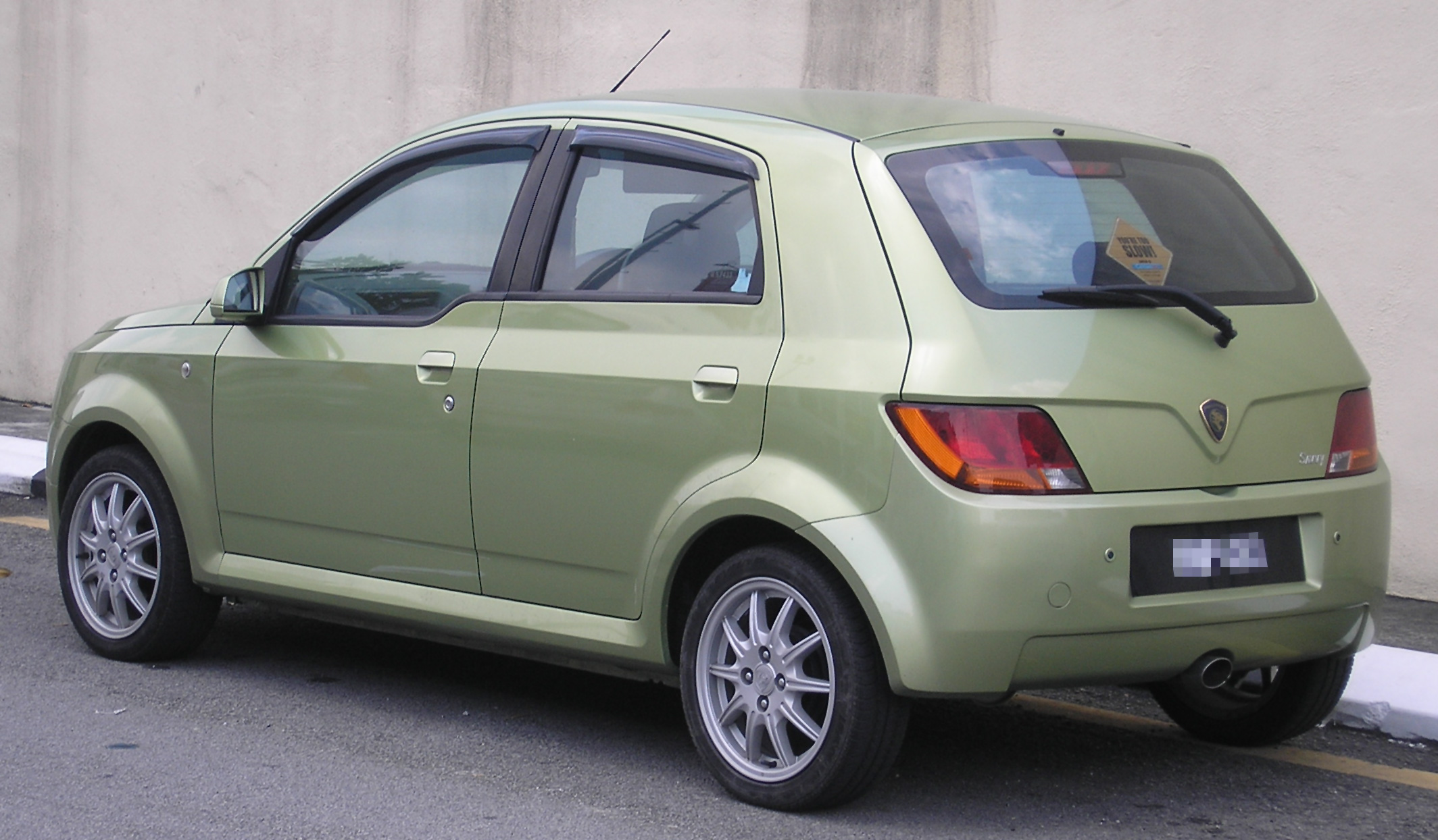 Rear-side shot of an first generation Proton Savvy, in Serdang, Selangor, Malaysia.